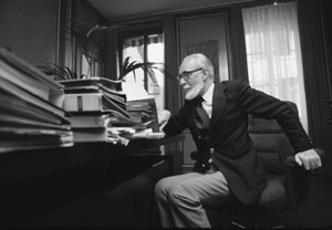 Pierre Jaccoud